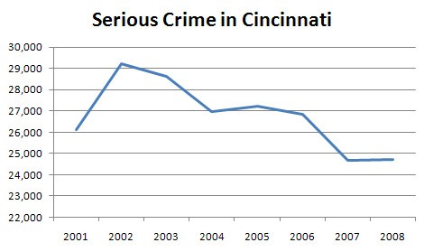 These are the "Total Part 1 Crimes" that were reported from 2001 through 2008. Part 1 crimes are generally considered more serious crimes and consist of murder, rape, robbery, aggravated assault, burglary, larceny, and auto theft. Below are the sources for this line graph, which was generated with Excel 2007. 2001: 2002: 2003: 2004: 2005: 2006: 2007: 2008